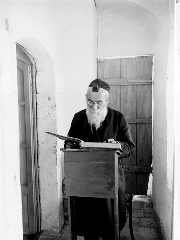 Rabbi Nosson Tzvi Finkel at the Hebron Yeshiva, Palestine.